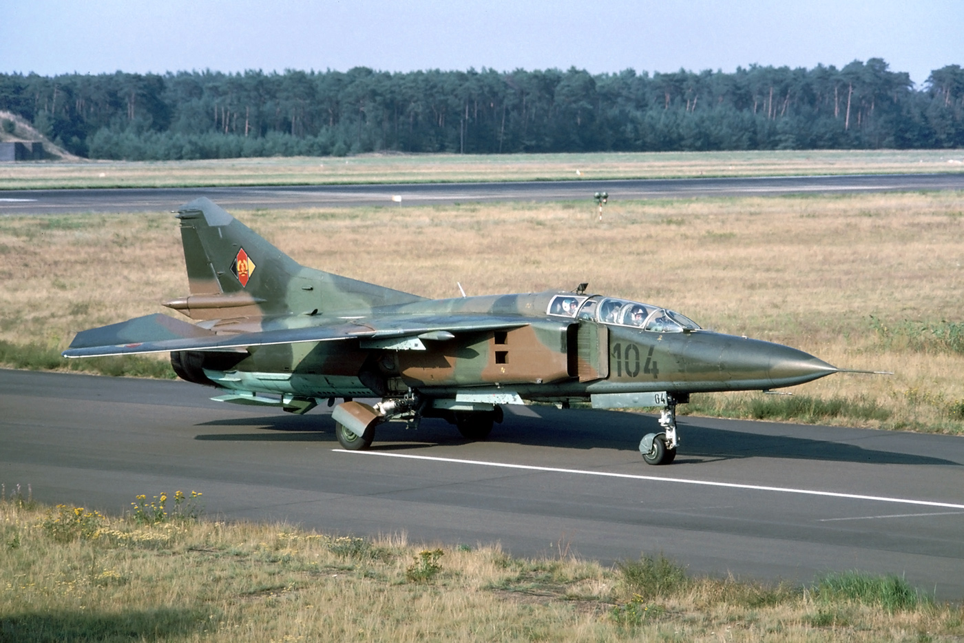 Drewitz, August 1990. The last weeks of the Luftstreitkräfte der Nationalen Volksarmee (Air Forces of the National People's Army). JBG-37 operated MiG-23BN ground attack aircraft and had two or three MiG-23UB's for training.